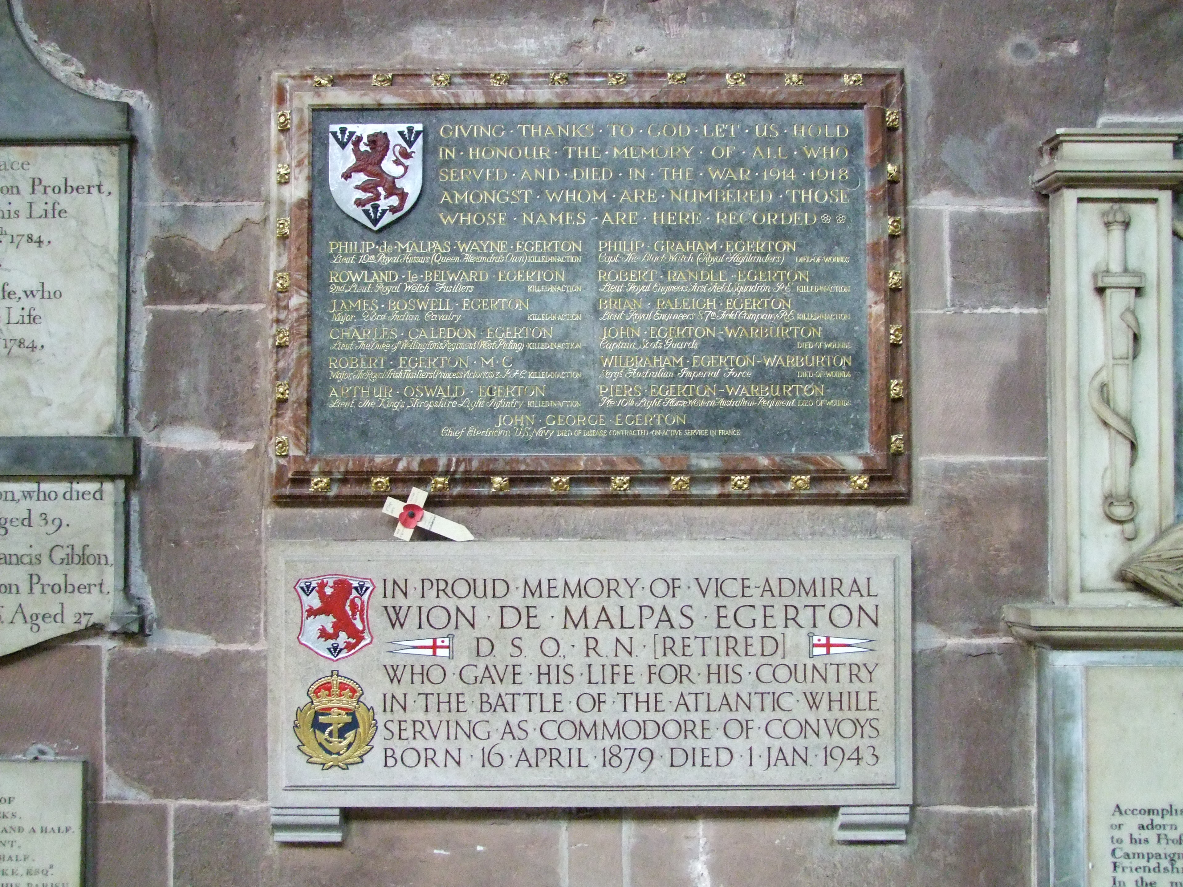 This war memorial is underneath Philip Egerton window in Chester Cathedral